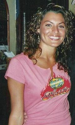 Stephenie LaGrossa - Bryan Street Pub, July 2005